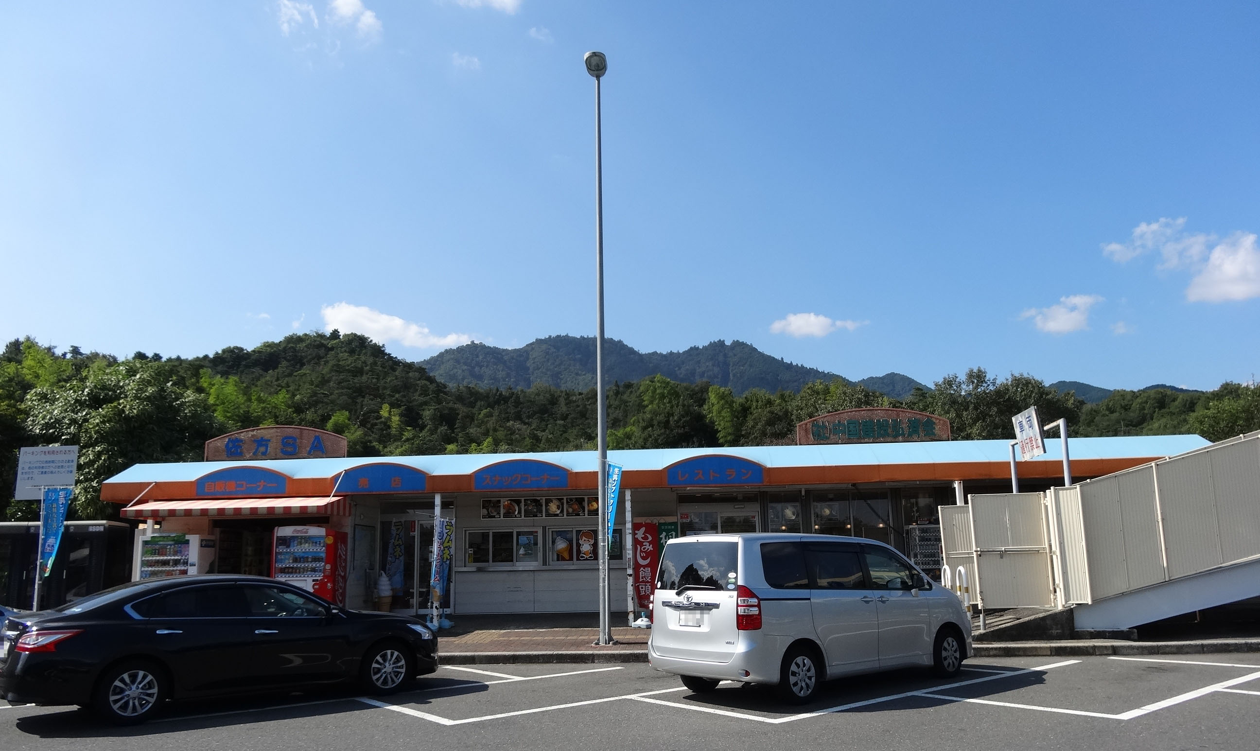 Nishihiroshima By-Pass Expressway Sagata Service Area upside （for Hiroshima,Fukuyama）